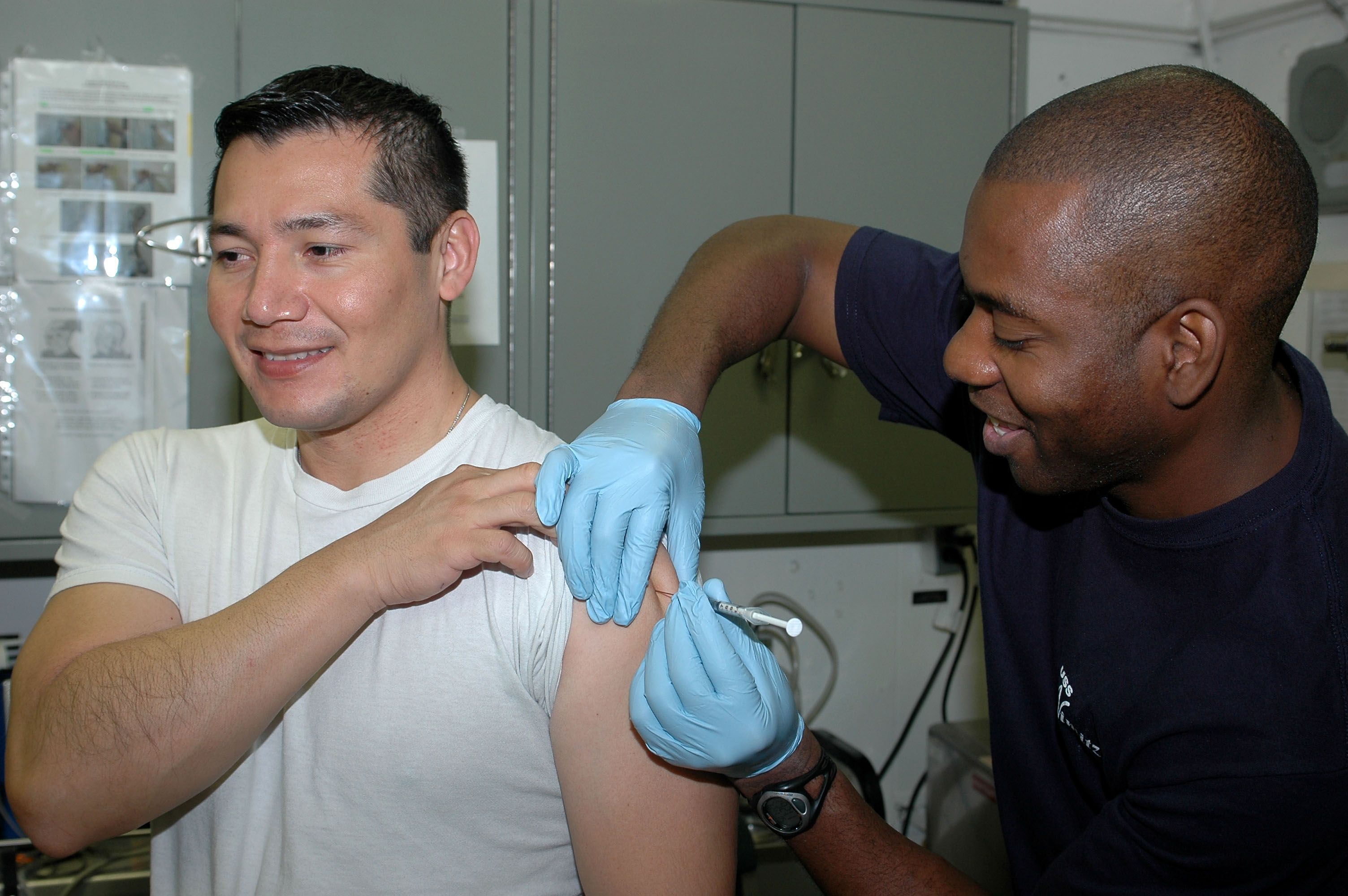 PERSIAN GULF (Nov. 29, 2009) Hospital Corpsman Michael Parke gives a vaccine to Lt. Carlos Lopez aboard the aircraft carrier USS Nimitz (CVN 68). Nimitz is on a routine deployment to the U.S. 5th Fleet area of responsibility. (U.S. Navy photo by Mass Communication Specialist Seaman Apprentice Robert Winn/Released)